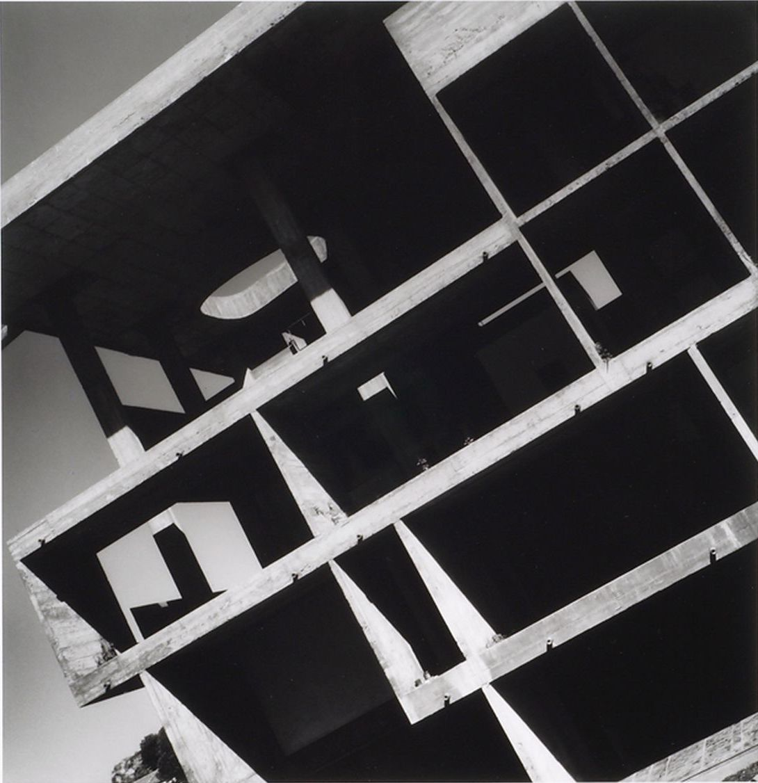 Photograph by Lucien Hervé, architecture by Le Corbusier and Balkrishna V. Doshi